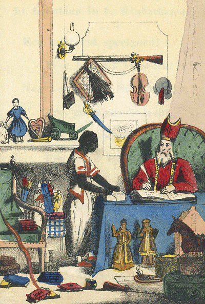 Saint Nicholas and Black Pete (1850). Sinterklaas writes the names of good and bad children in the Large Book. The rhyme says that a child takes a biscuit from the cookie can. Sint pulls his/her ear and the child promises to never do it again. llustration from: Jan Schenkman, St. Nikolaas en zijn knecht (Amsterdam, 1850). Picture with the rhyme 'St. Nikolaas bij een' Snoeper' (p. 22). Source: DBNL .